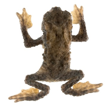 Osornophryne simpsoni in alcohol. Dorsal view of holotype, adult male, QCAZ 49774, SVL 20.1 mm.